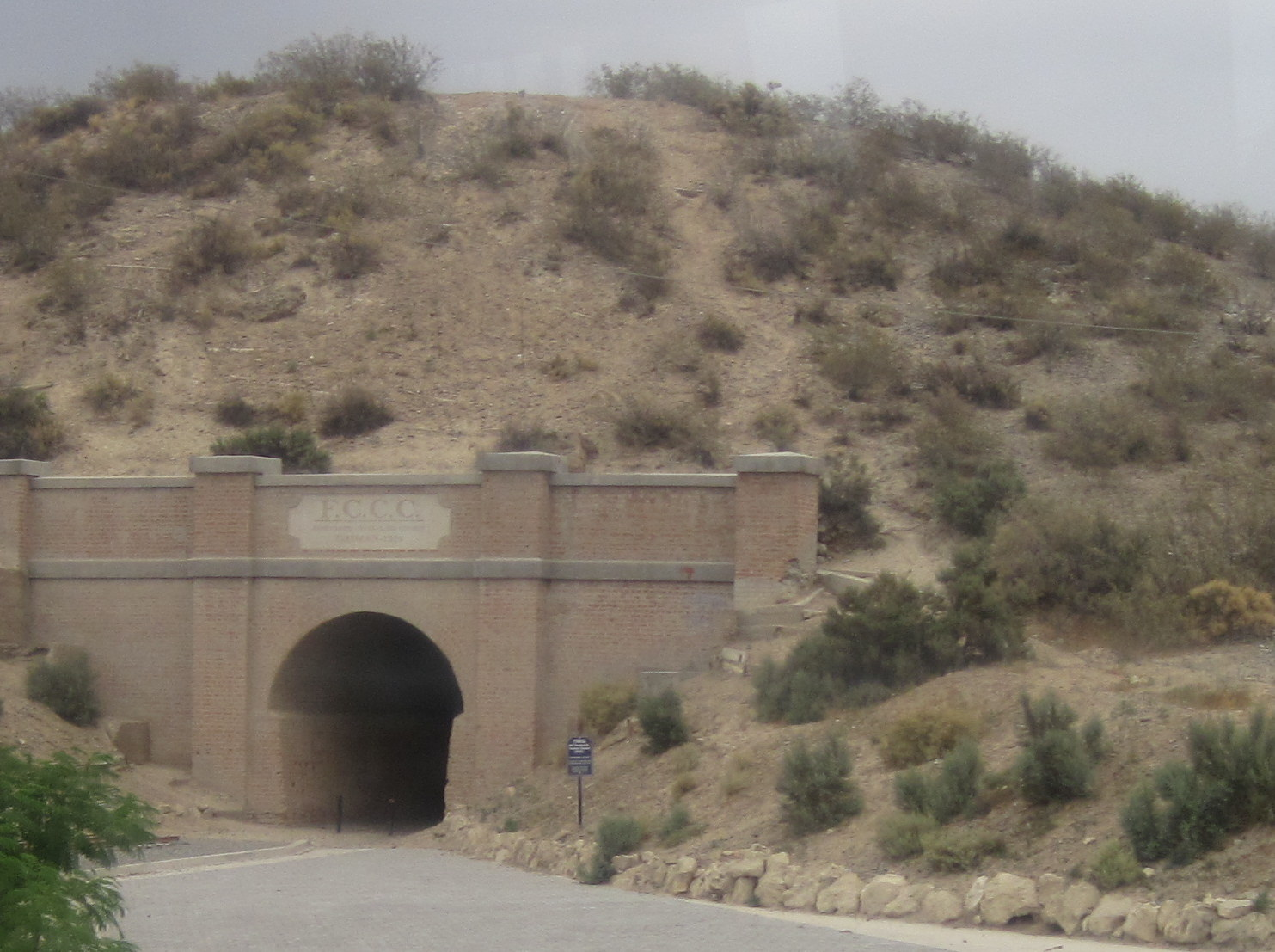 The entrance to the old railroad tunnel in Gaiman, Chubut, Argentina